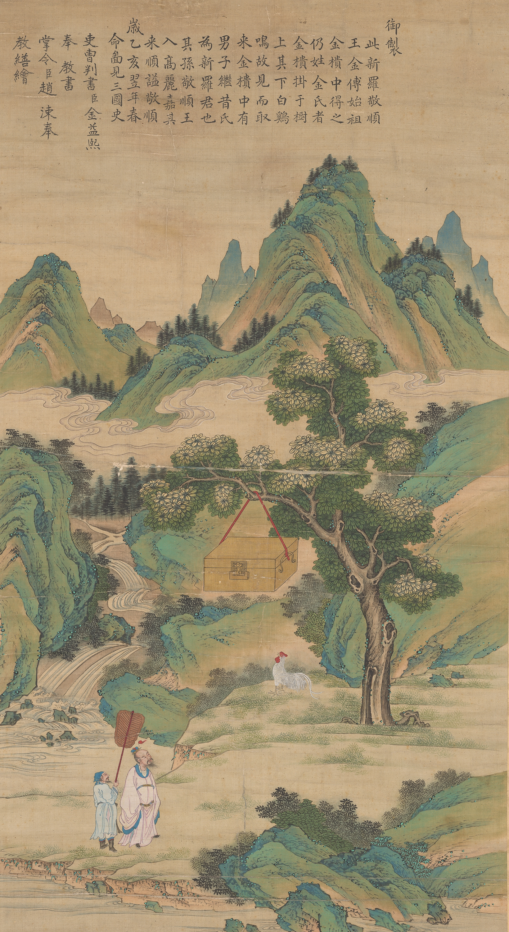 Geumgwedo (Painting of Golden box) drawn by Jo Sok in 1656, depicting the birth legend of Kim Alji, the founder of the Gyeongju Kim clan during the Silla kingdom period.